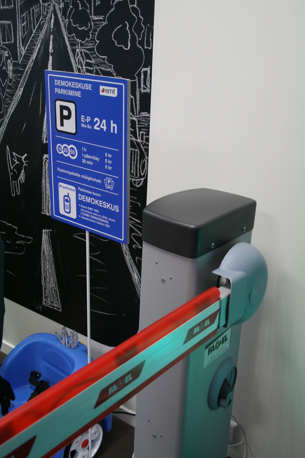 We had endless fun with this one. Registered users can maneuver it either on the spot or call +372 189500 to open it, courtesy of EMT m-services (or something). At the opening of (press release in Estonian only) the Estonian ICT Demo Center in �lemiste City. I was there to set up and demonstrate the Yoga Intelligent Building system which is represented in the Center.